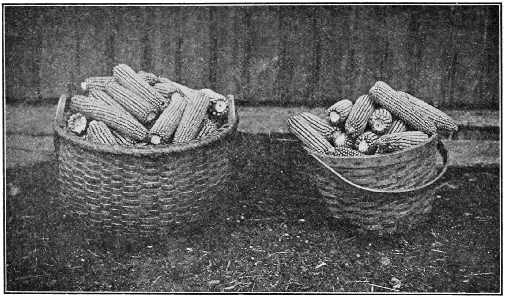 Results of crossing two inbred strains of maize